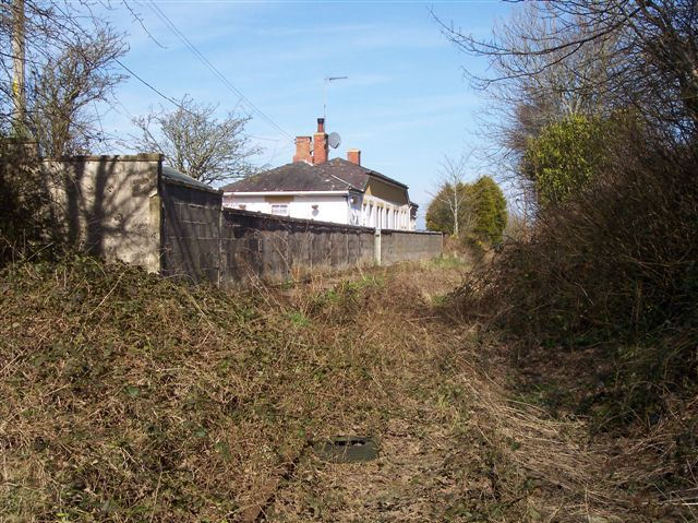 Rhosgoch station, Anglesey. Passenger trains on the branch line to Amlwch, on the north coast of the island, were withdrawn in 1964. Rhosgoch, the last station before the terminus, is located three miles south west of Amlwch and is now a private residence.